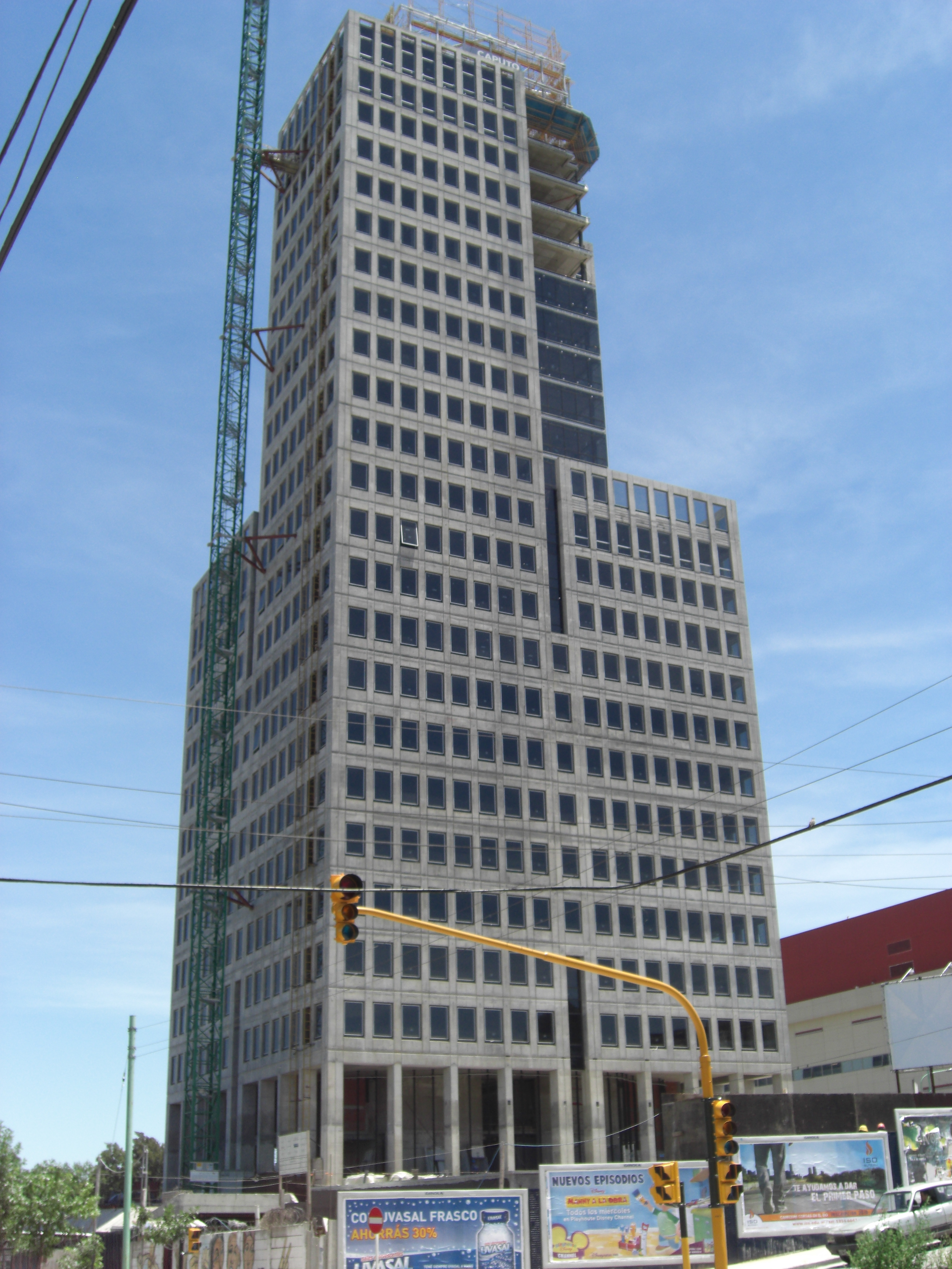 Intecons Tower - Buenos Aires, Argentina.